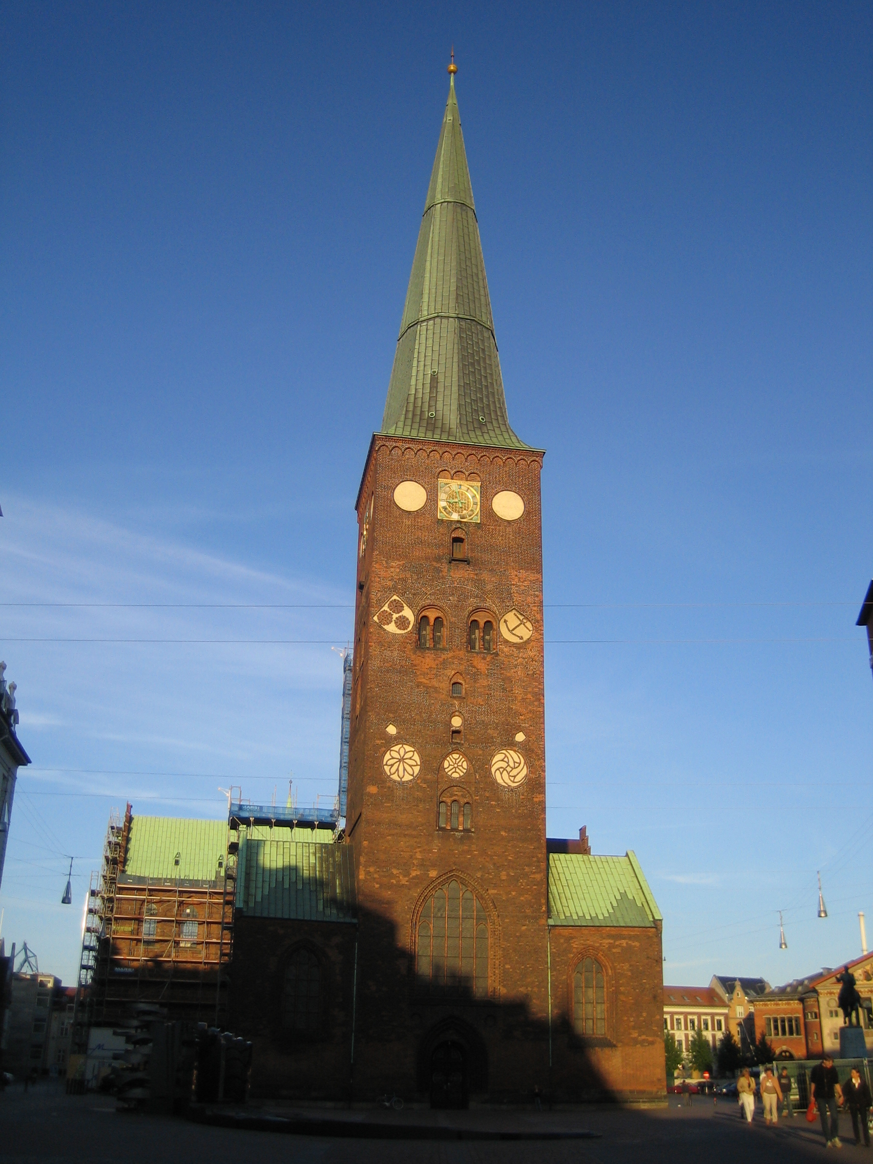 A view upon the main entrance side of the Aarhus Cathedral (Danish: 'Domkirke'), located at Domkirkepladsen 2, 8000 Aarhus C, Denmark.